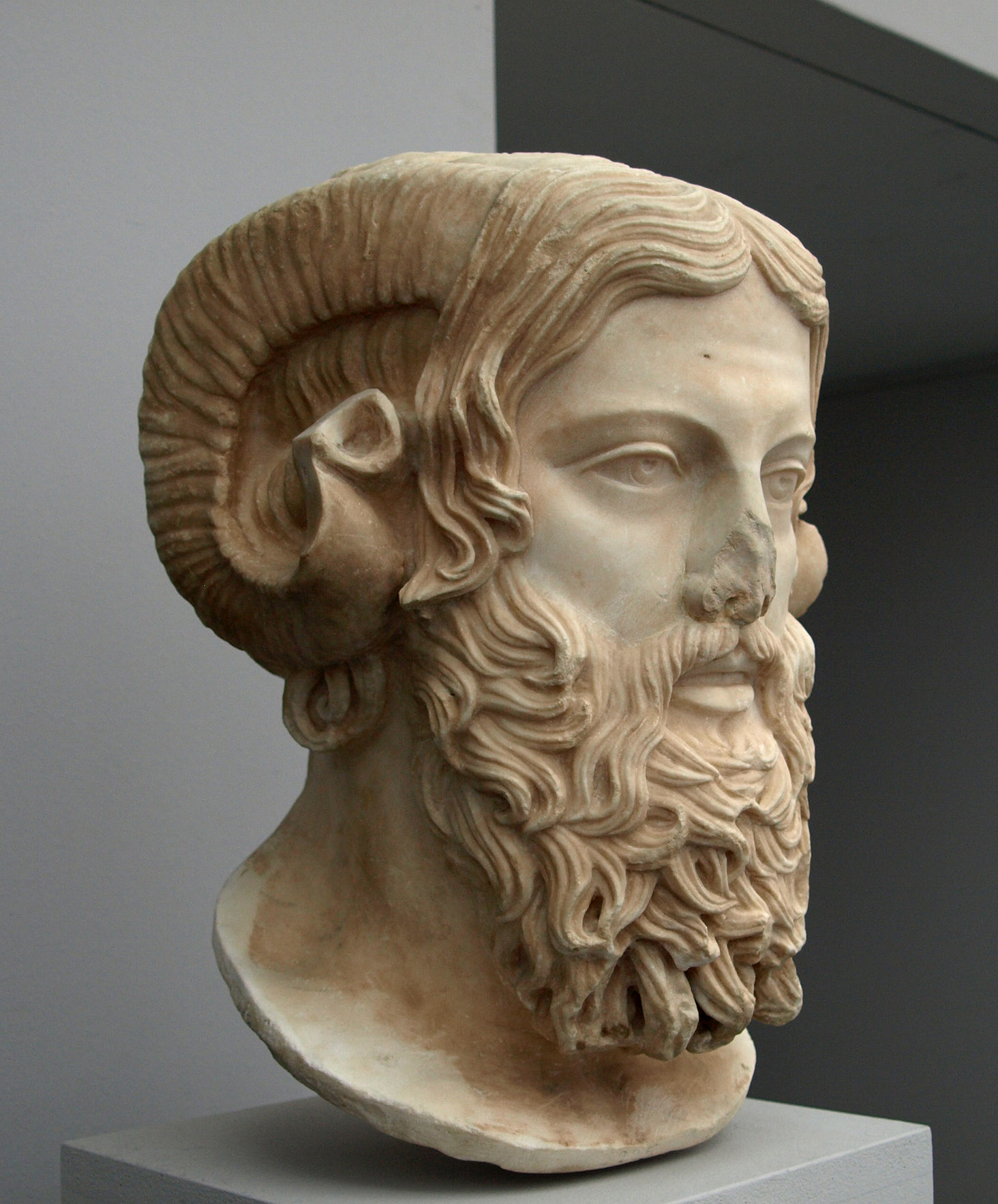 Roman copy of a greek original from the late 5th century B.C. The greeks of the lower Nile Delta and Cyrenaica combined features of the Greek supreme god Zeus with features of the Egyptian god Ammon-Ra. Staatliche Antikensammlungen Native nameStaatliche AntikensammlungenLocationMunichCoordinates48° 08′ 42″ N, 11° 33′ 53″ E Established1848Website control VIAF: 255683987 ULAN: 500267743 LCCN: n81002996 NLA: 36383826 GND: 4198941-7 WorldCat Munich